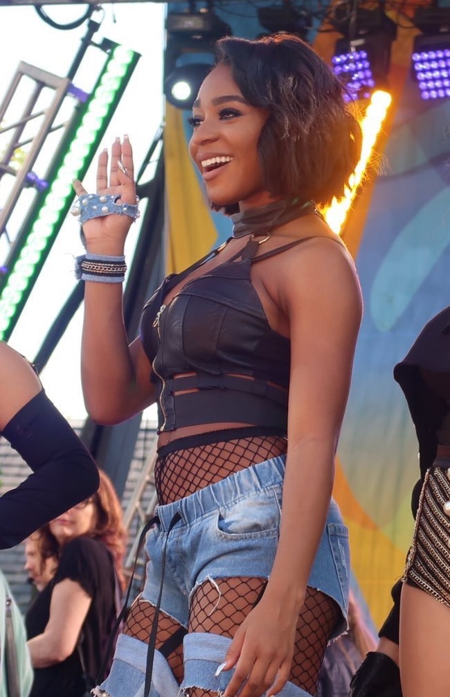 Normani on Good Morning America in NYC on June 2nd, 2017.